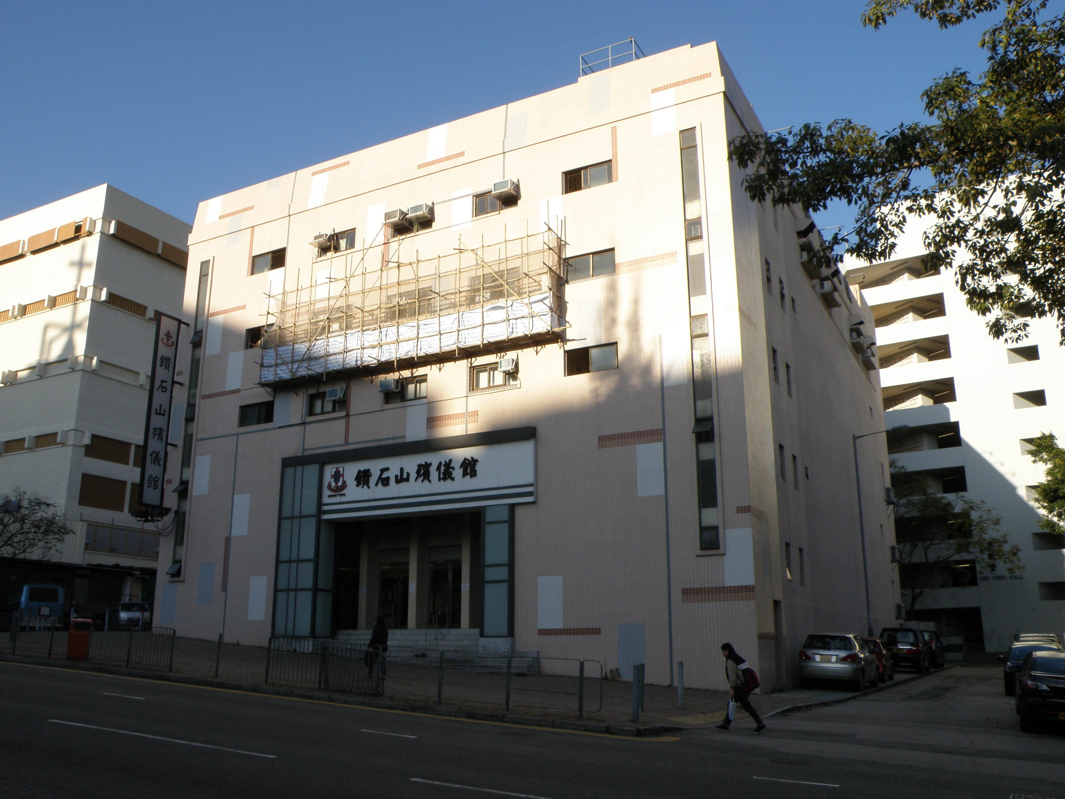 Diamond Hill Funeral Parlour in Wong Tai Sin District, Hong Kong.